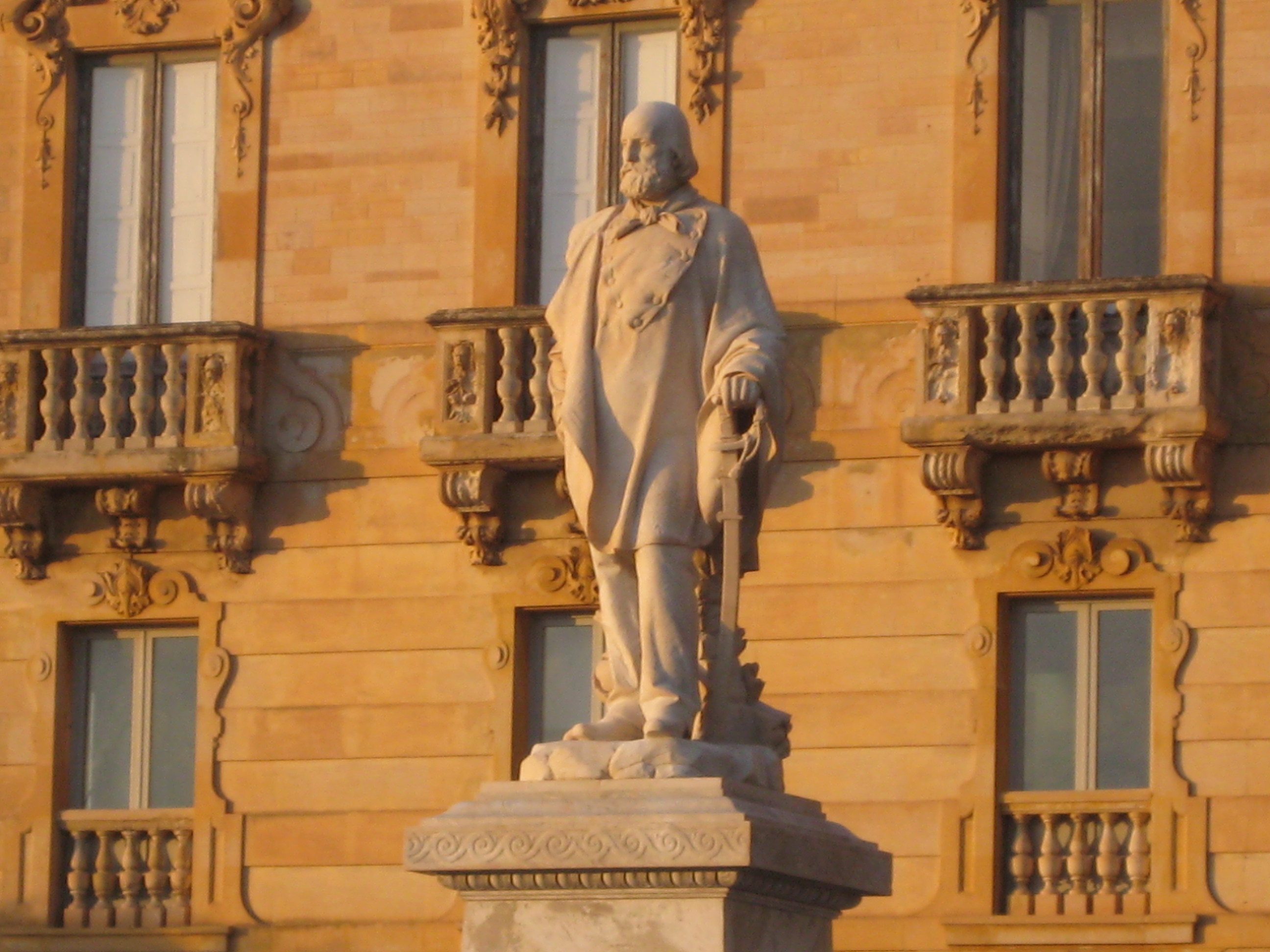 Garibaldi Statue in Trapani